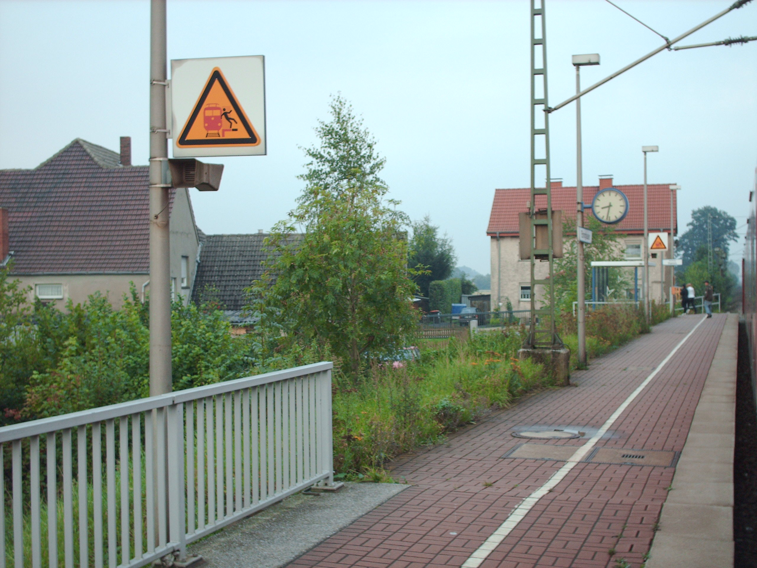 Ehringhausen station, Geseke, Germany check usage